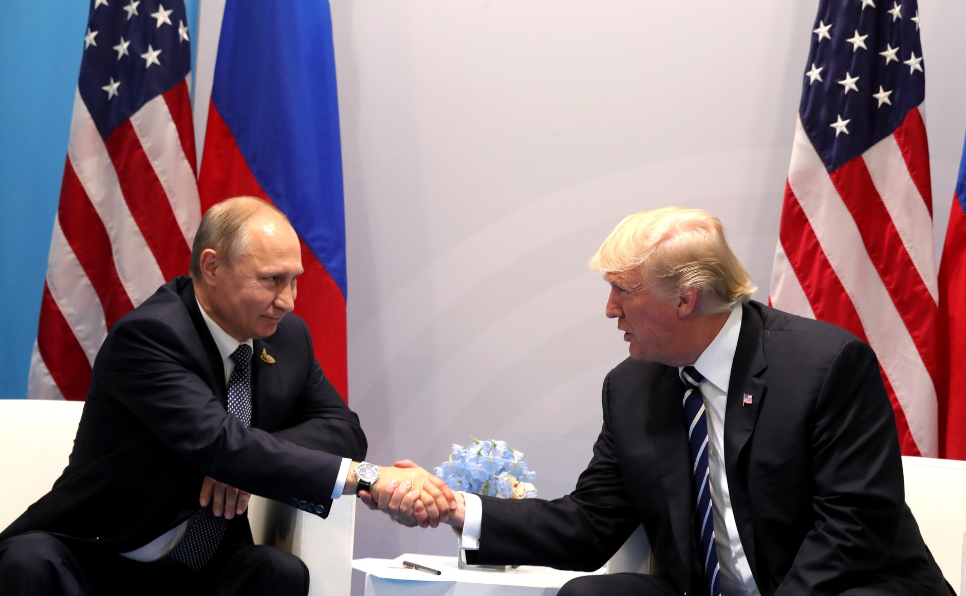 Vladimir Putin and Donald Trump meet at the 2017 G-20 Hamburg Summit